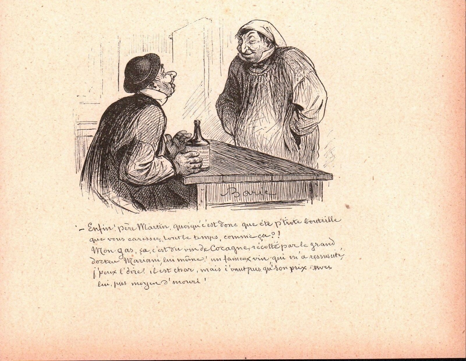 An Ad for Mariani Wine by Jules Baric.